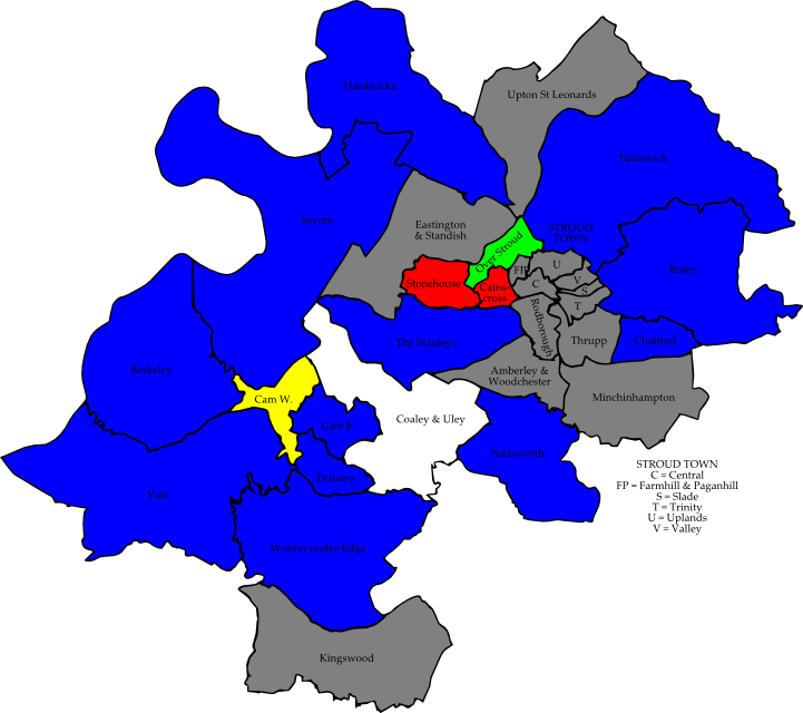 A map of the results of the 2006 Stroud Council election. Colour legend by wards won: Conservative party Labour party Liberal Democrats Green party Independent Wards in grey were not contested in 2006.